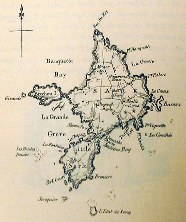 Map of Sark. Illustration from The Channel Islands: Pictorial, Legendary and Descriptive (1857)